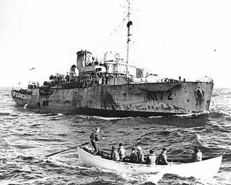 HMCS Trillium- Flower class corvette.